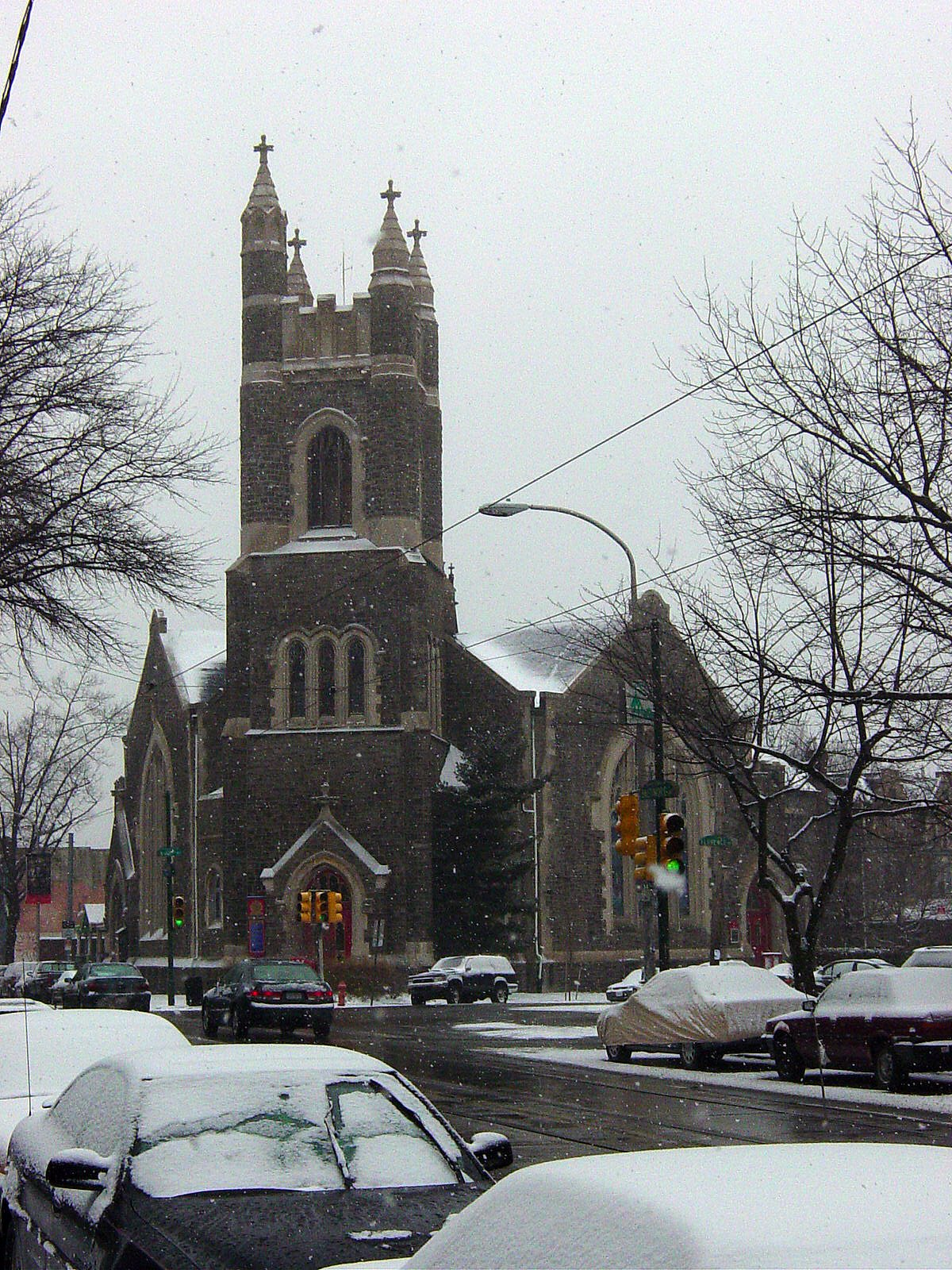 Calvary United Methodist Church at the corner of 48th and Baltimore Avenue in West Philadelphia.